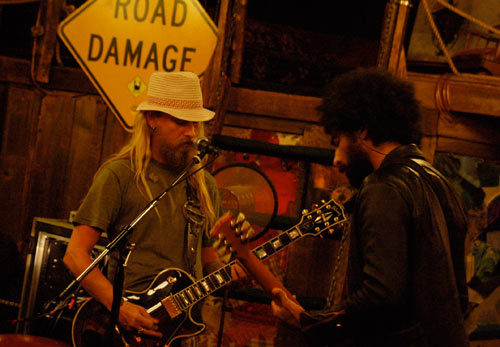 Jerry cantrell and william duval in the studio